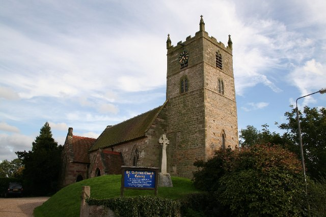 St.Andrew's church, Eakring, Notts.